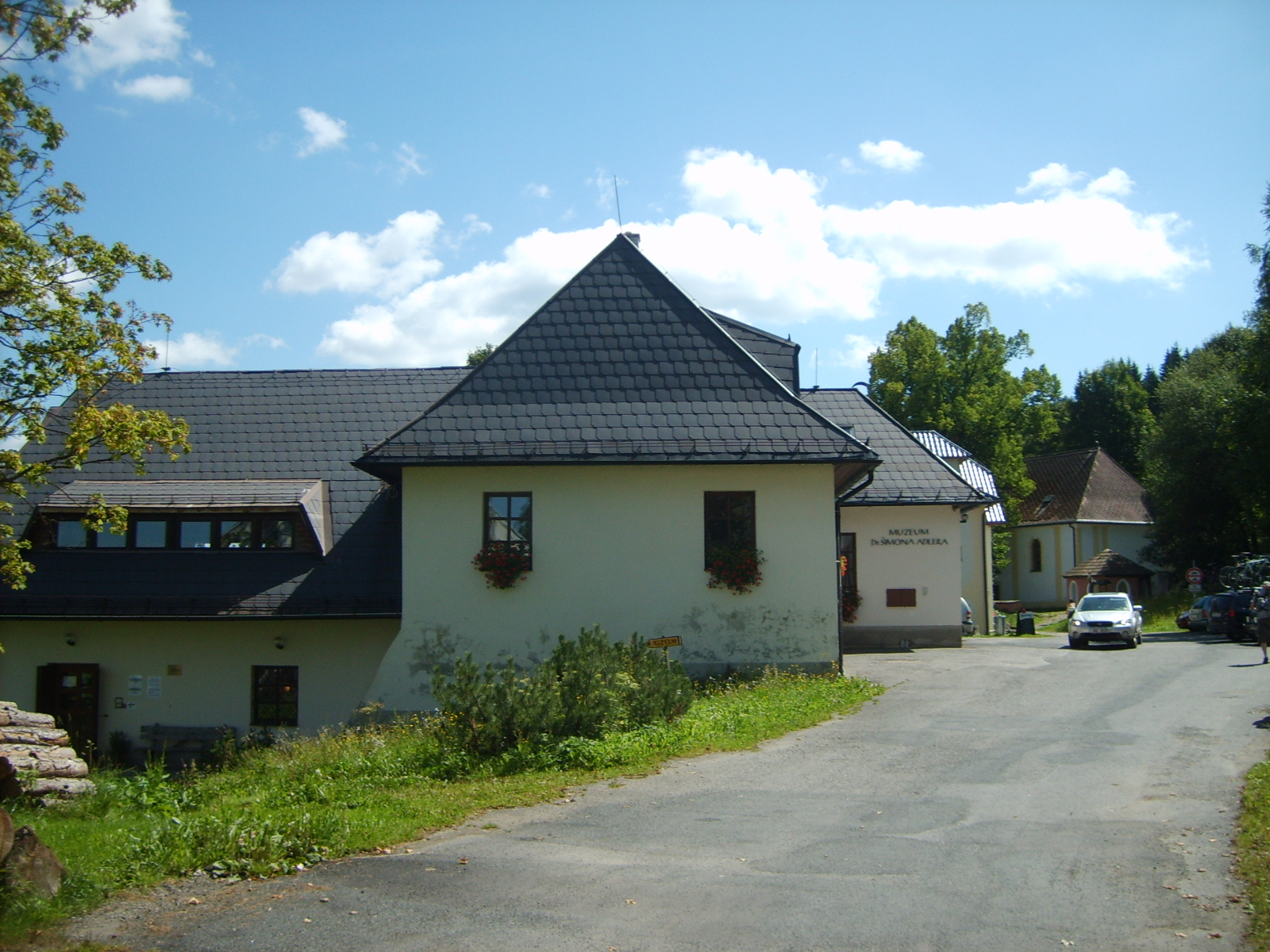 Museum of Dr.Simon Adler in Dobrá Voda, Bohemian Forest.